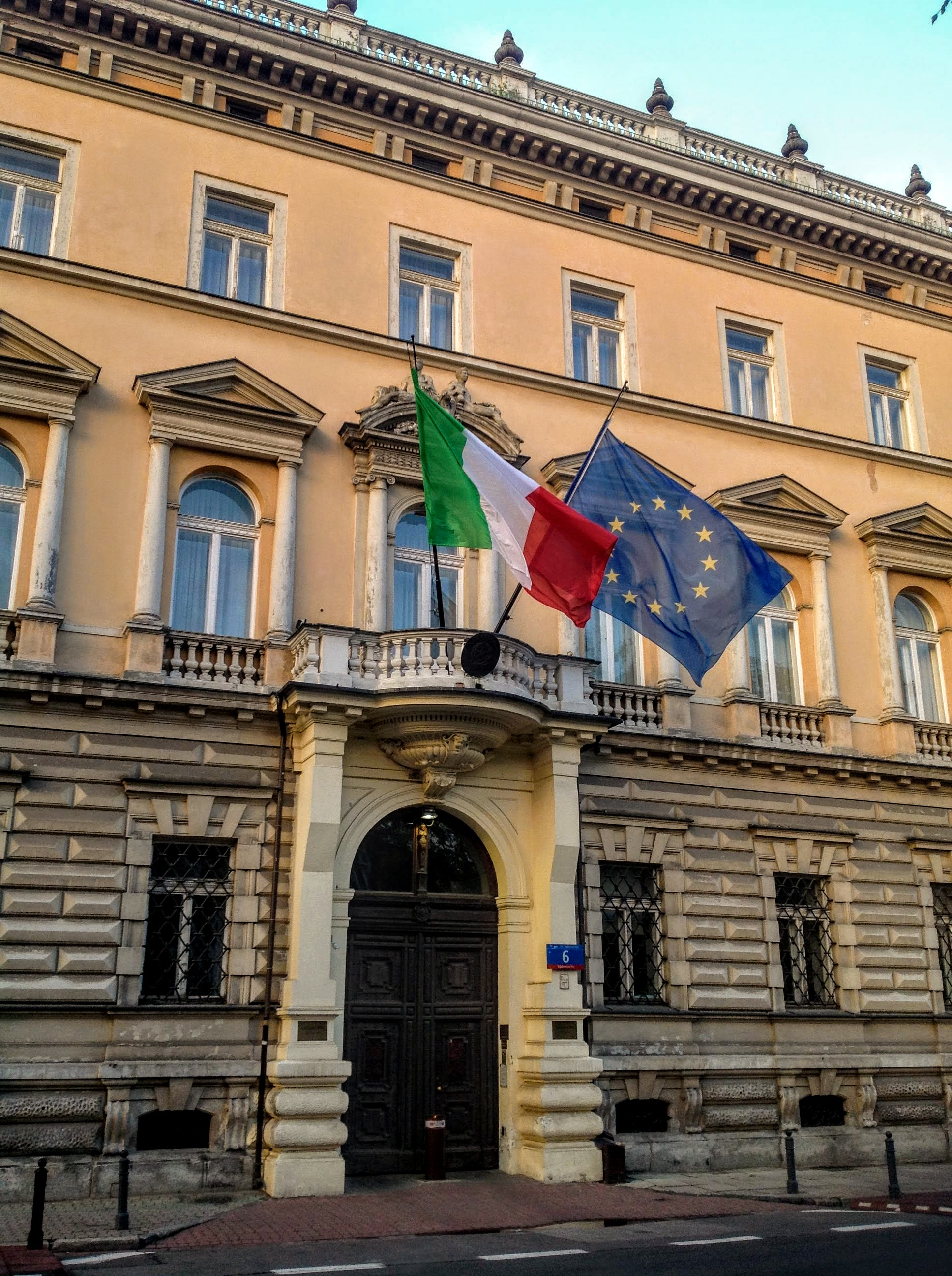 Szlenkier Palace